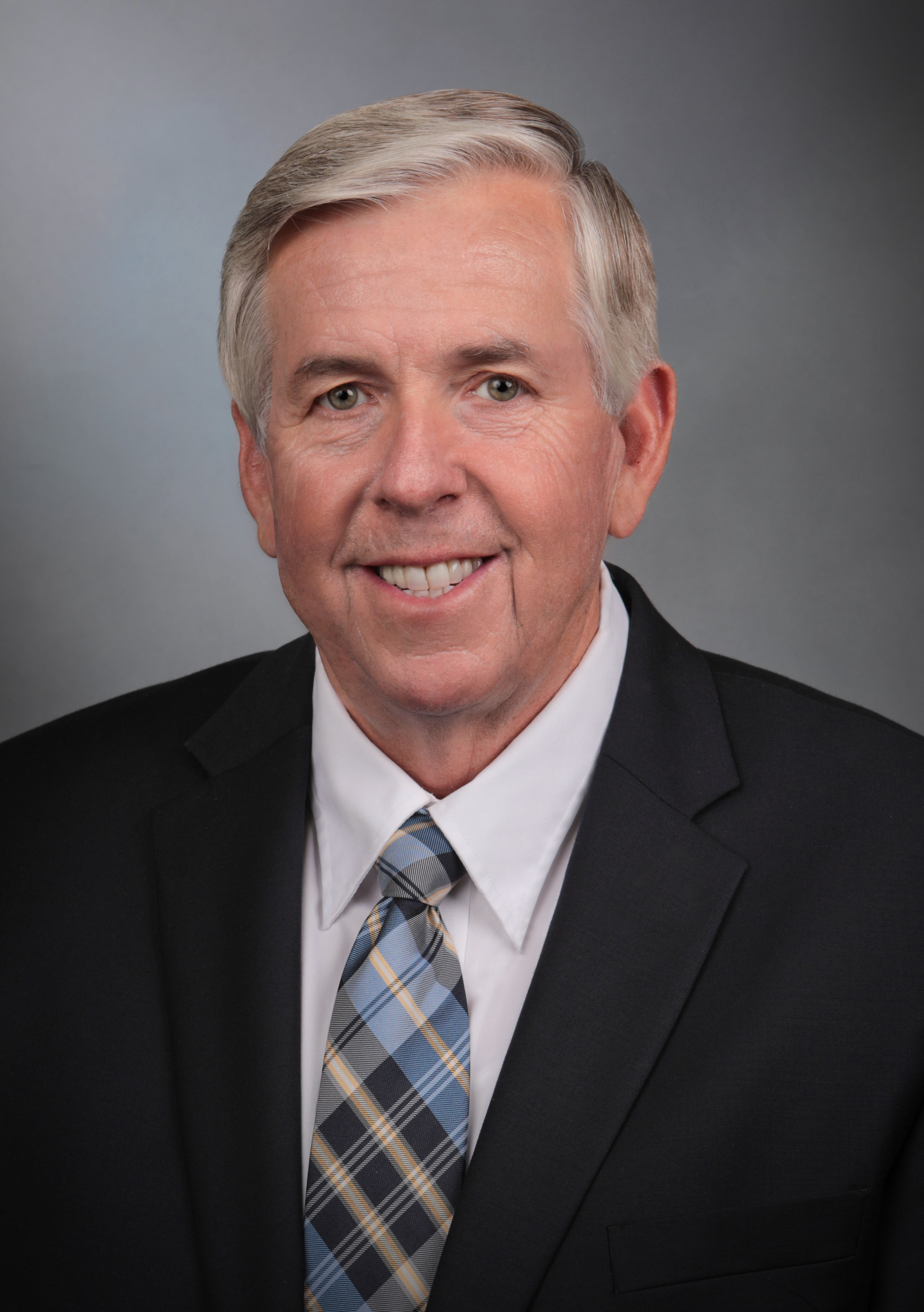 Governor Mike Parson official photo